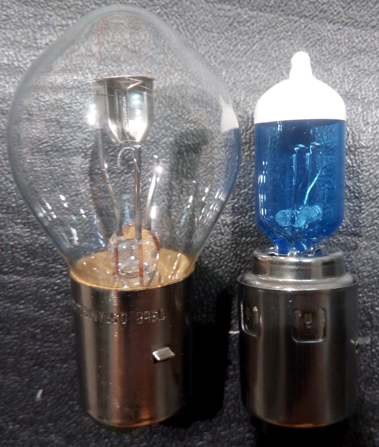 S2 bulbs, left to standard incandescent, right halogen xenon effect